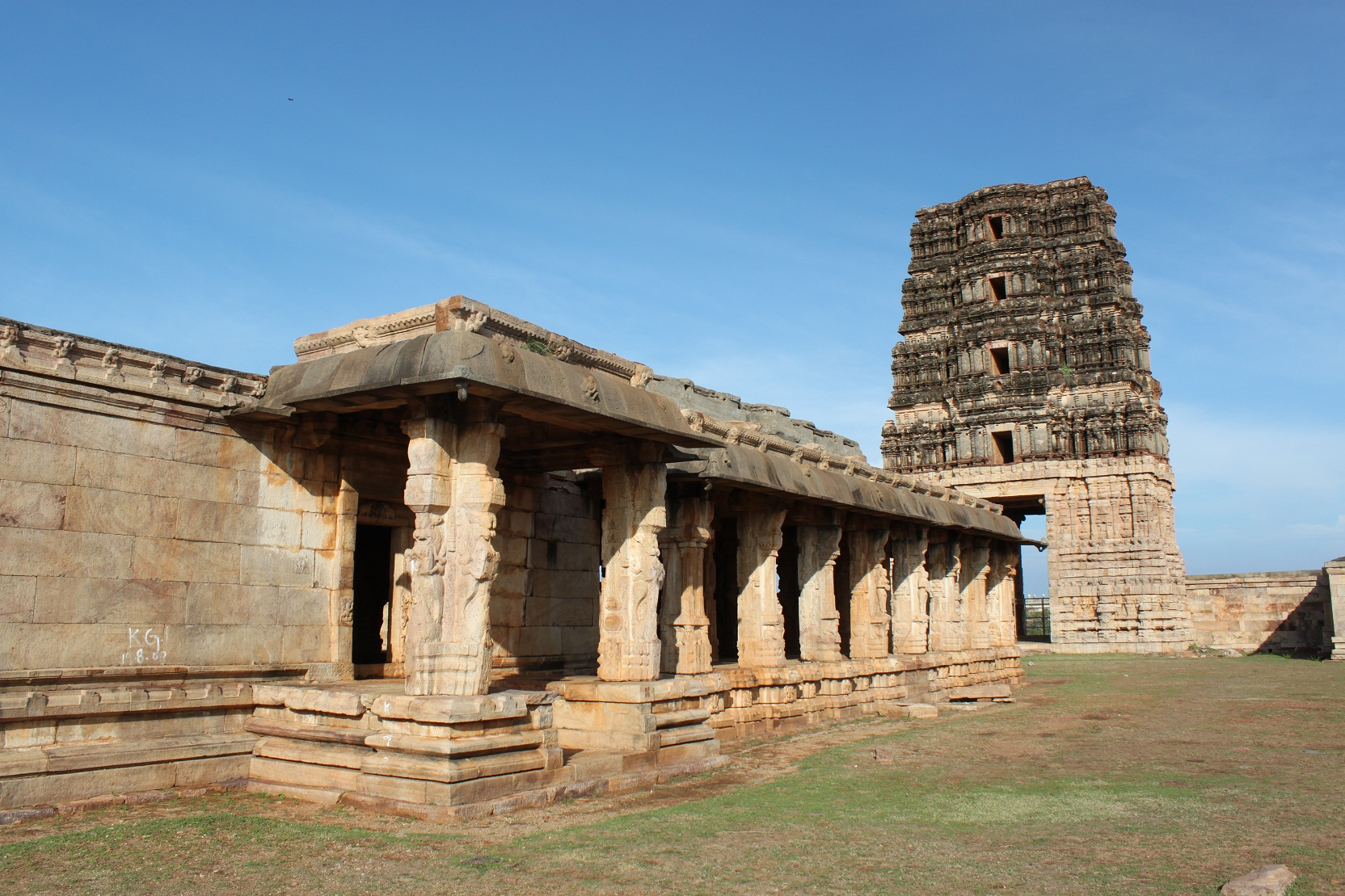 Fort with enclosed ancient buildings, Madhavaperumal temple